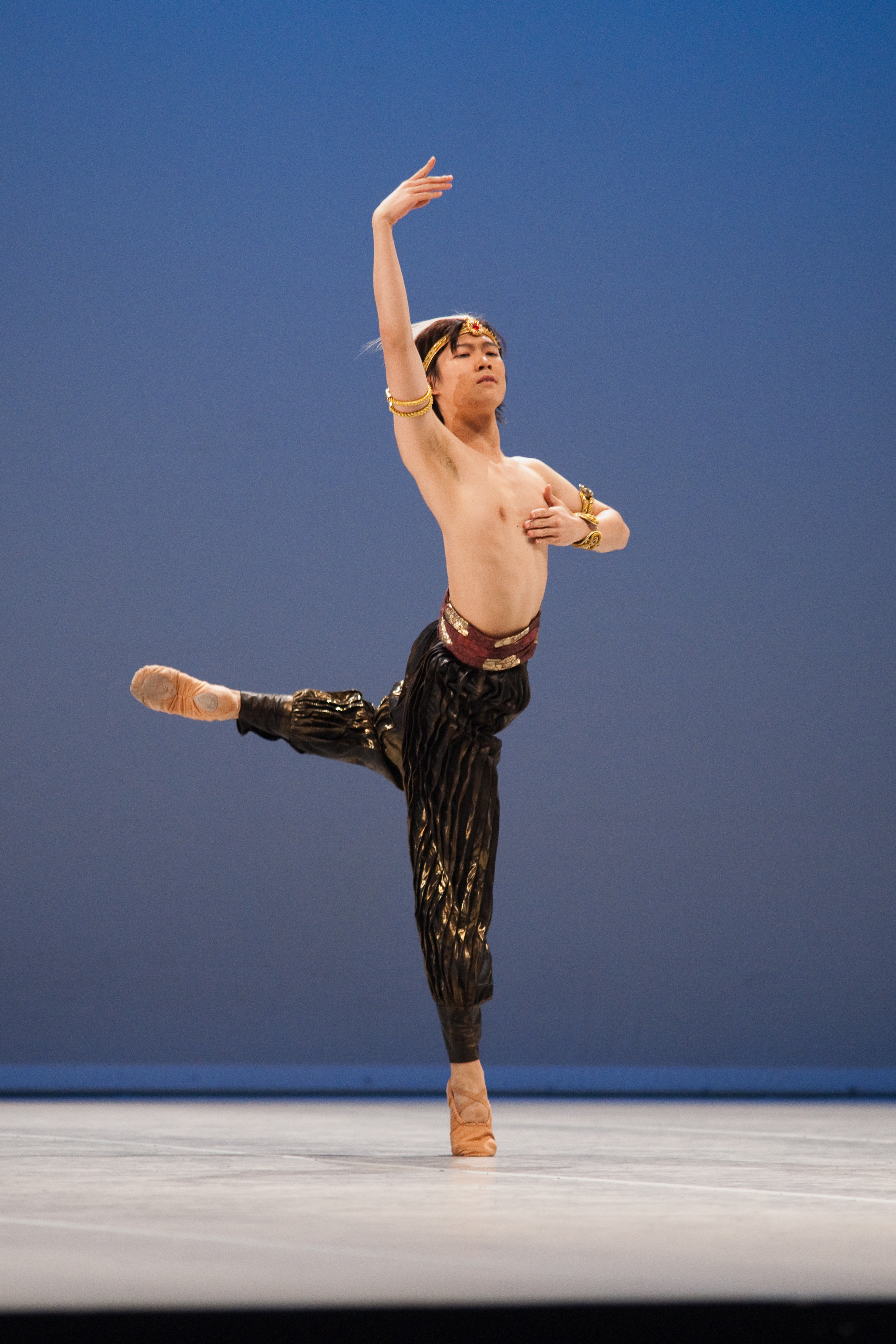 The making of this document was supported by Wikimedia CH. (Submit your project!) For all the files concerned, please see the category Supported by Wikimedia CH.